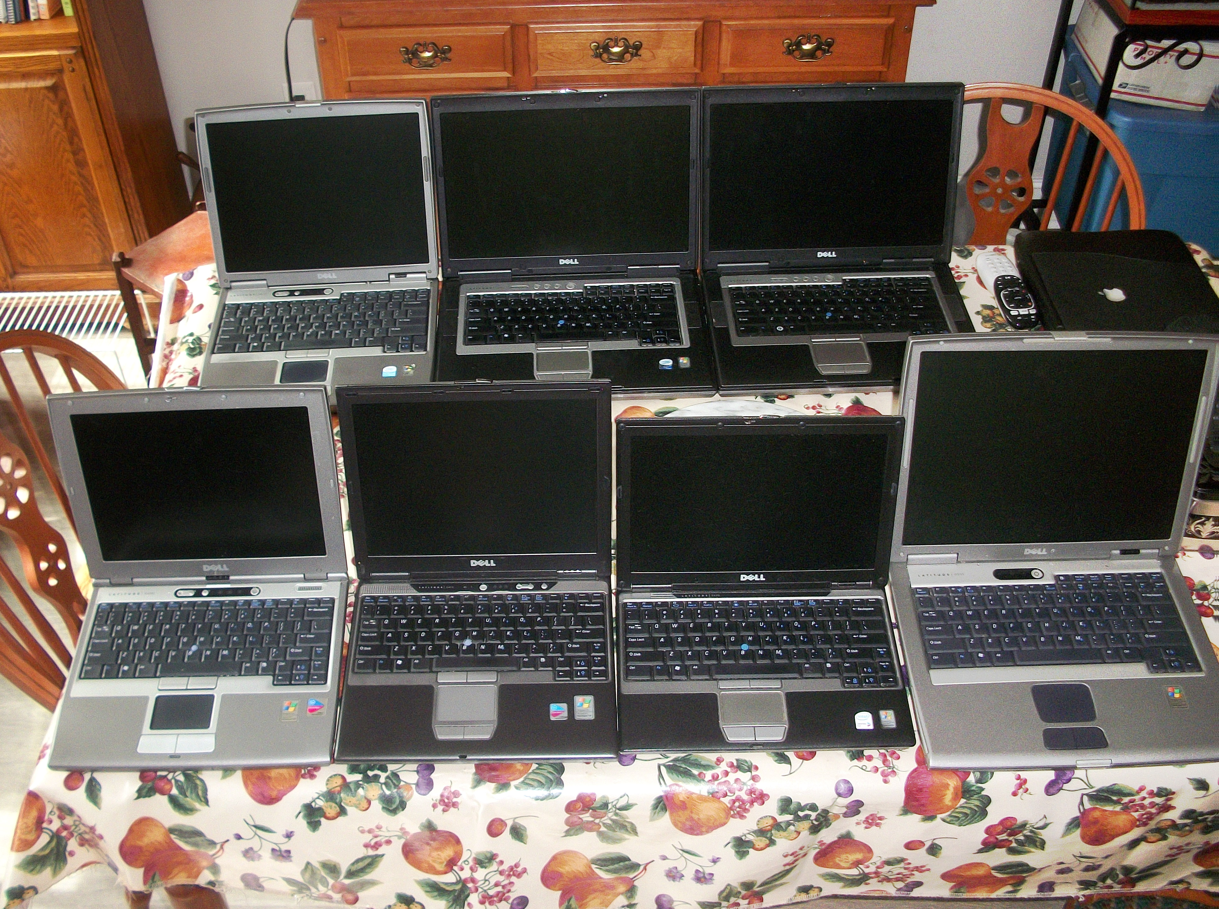 Multiple members from the Dell Latitude D series.